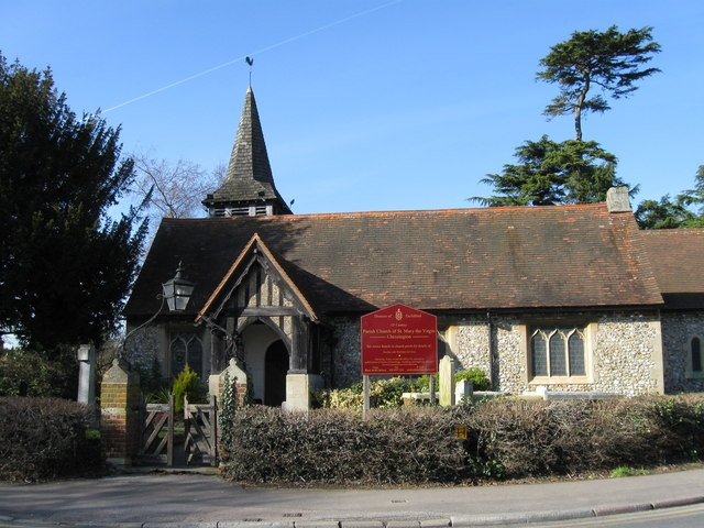 St Mary the Virgin parish church, Chessington, Surrey, seen from the southeast